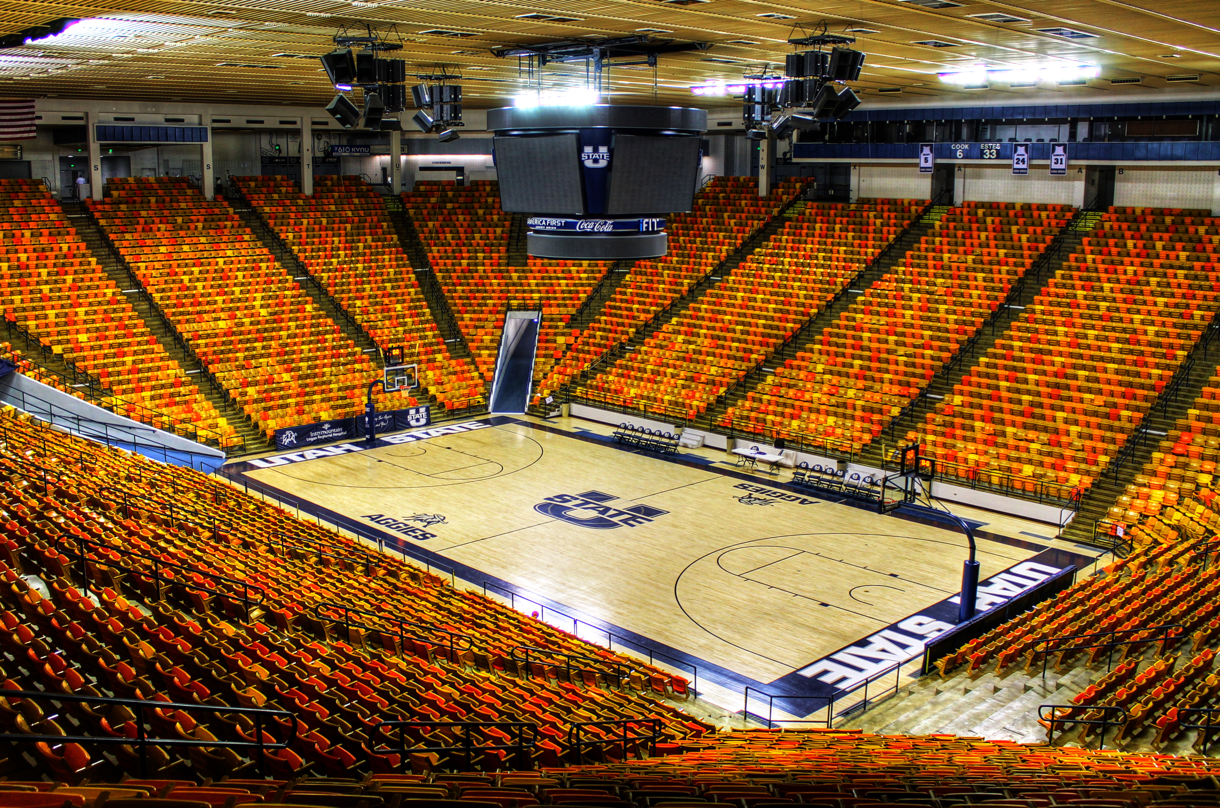 This photo is the inside of the Dee Glen Smith Spectrum on the campus of Utah State University after installation of a new scoreboard and a new court featuring updated logos. This photo was taken in June or 2013